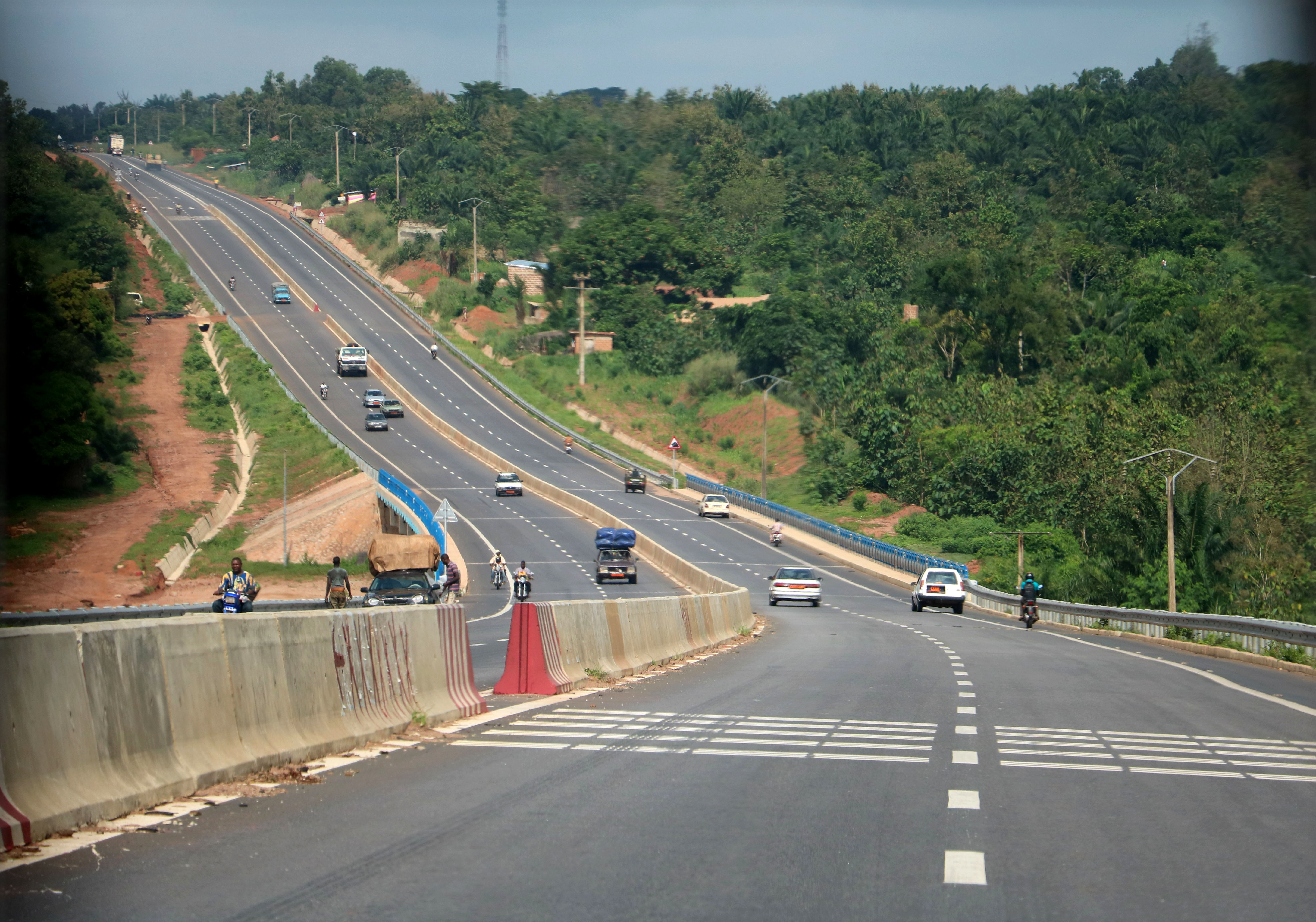 the interstate road Calavi Allada shine bright with new roads This is an image with the theme "Africa on the Move or Transport" from: Benin